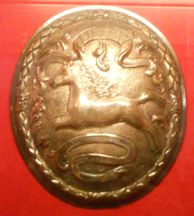 Slightly crap image of the badge bit of Doggett's Coat and Badge taken in London rowing club. Original image including date and person at